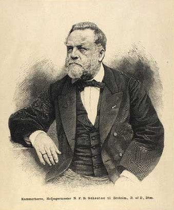 Niels Frederik Bernhard Sehested (1813-1882), Danish nobleman, estate owner, and archaeologist